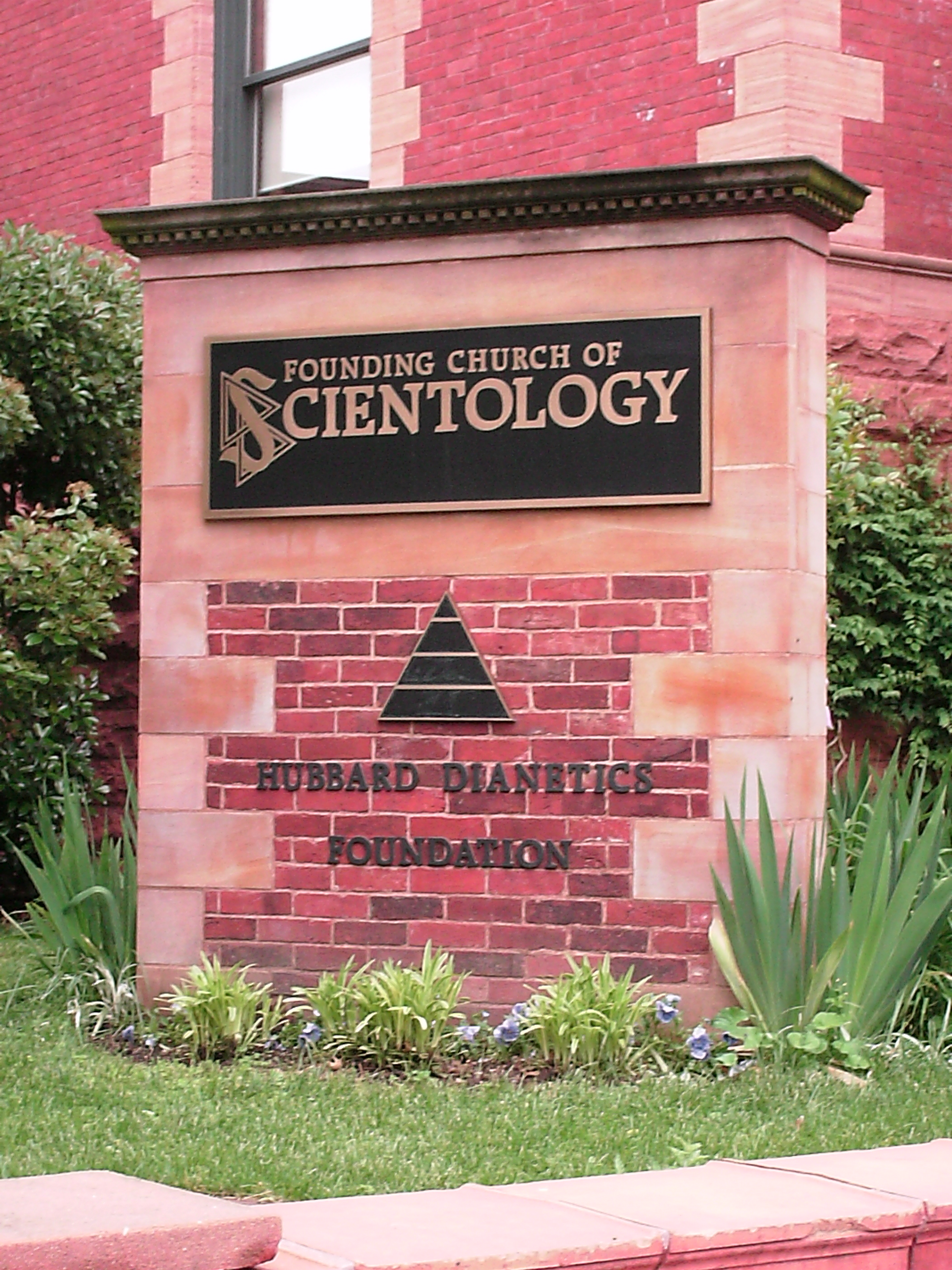 Monument-style sign in front of the Founding Church of Scientology in Washington DC.